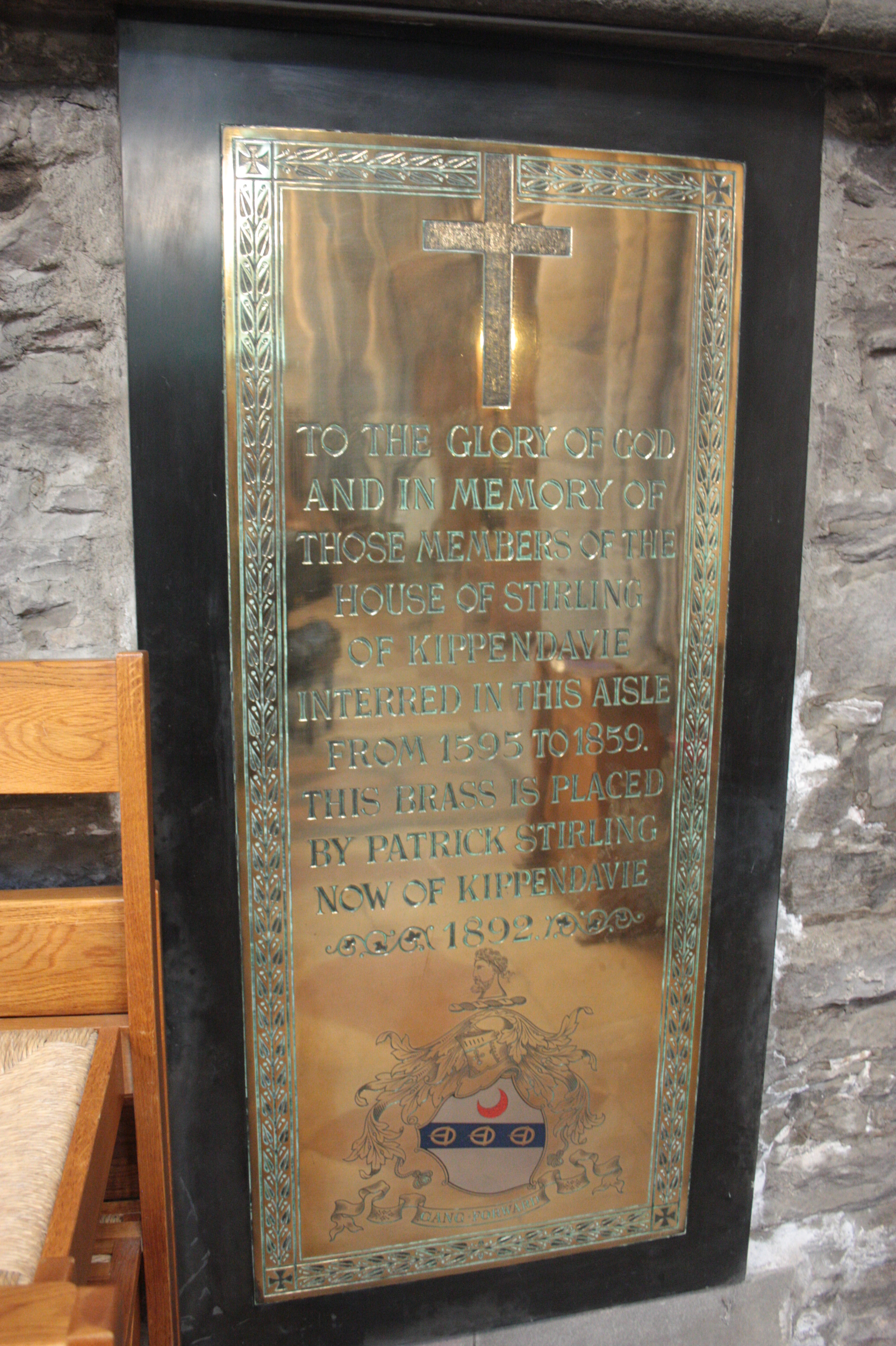 Brass plague to the Stirlings of Kippendavie, Dunblane Cathedral